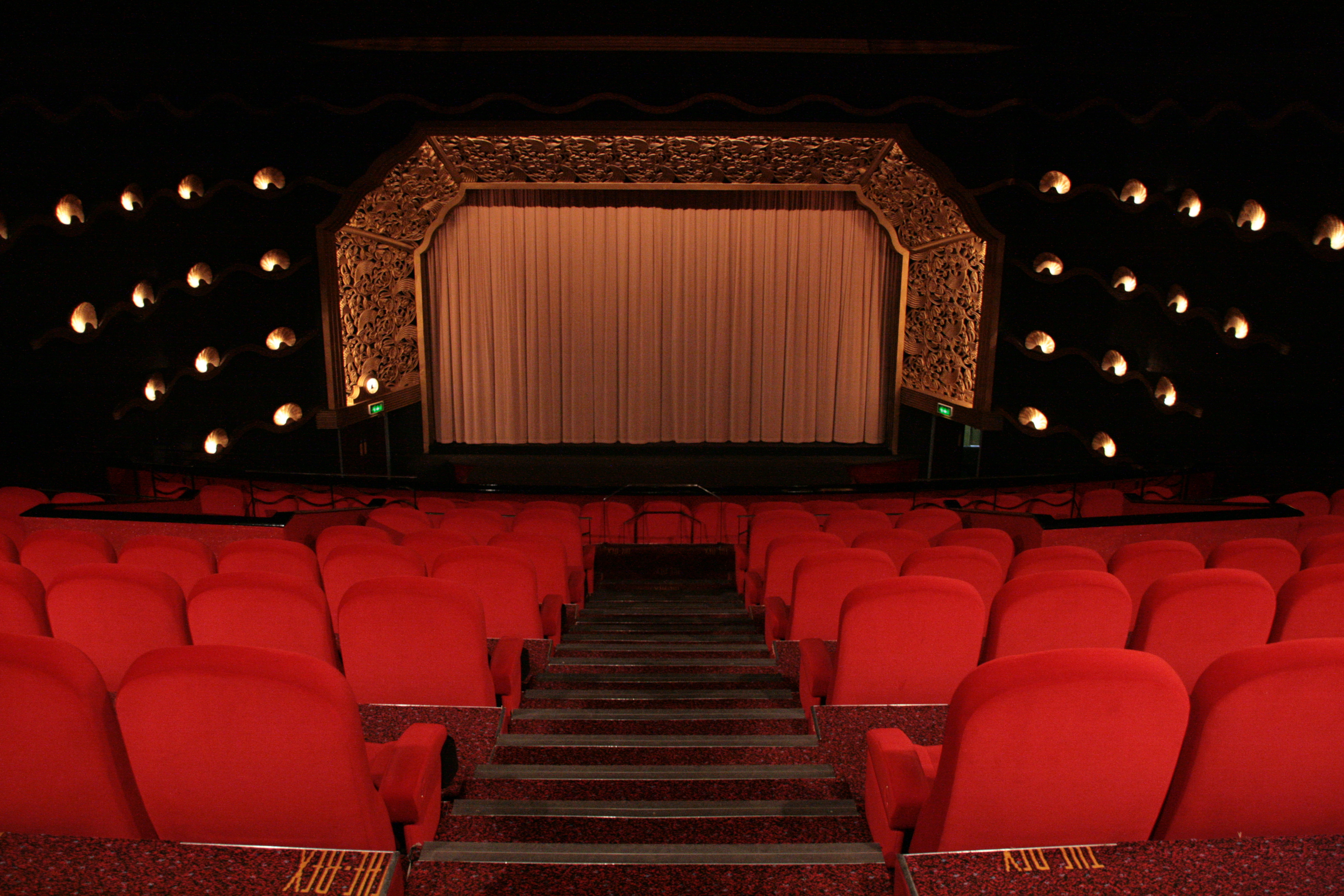 The auditorium of the Art Deco Rex Cinema, Berkhamsted, Hertfordshire, UK. Architect: David Evelyn Nye, 1937; interior decoration thought to be the work of Mollo and Egan